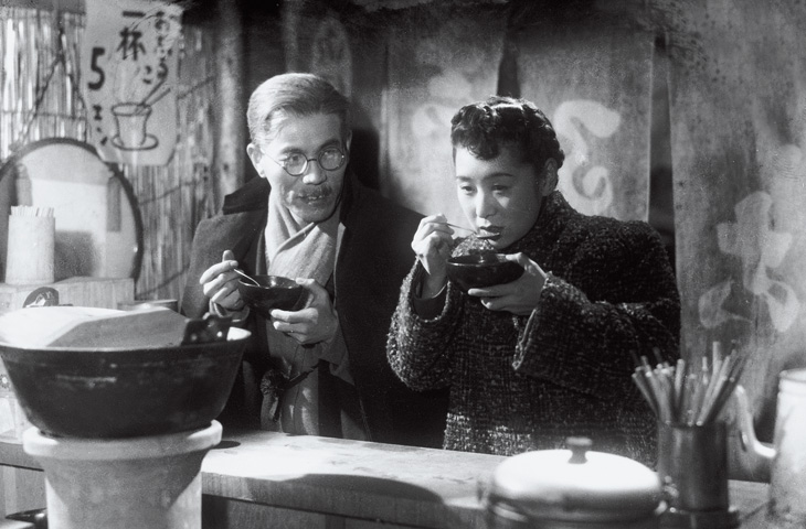 Eijirō Tōno and Kinuyo Tanaka in Kekkon (1947) directed by Keisuke Kinoshita